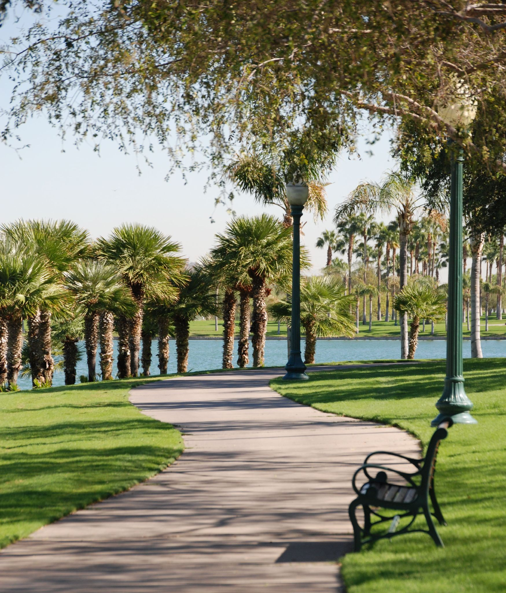 Park in Goodyear, AZ Uploaded on October 19, 2006 by j.arsenault